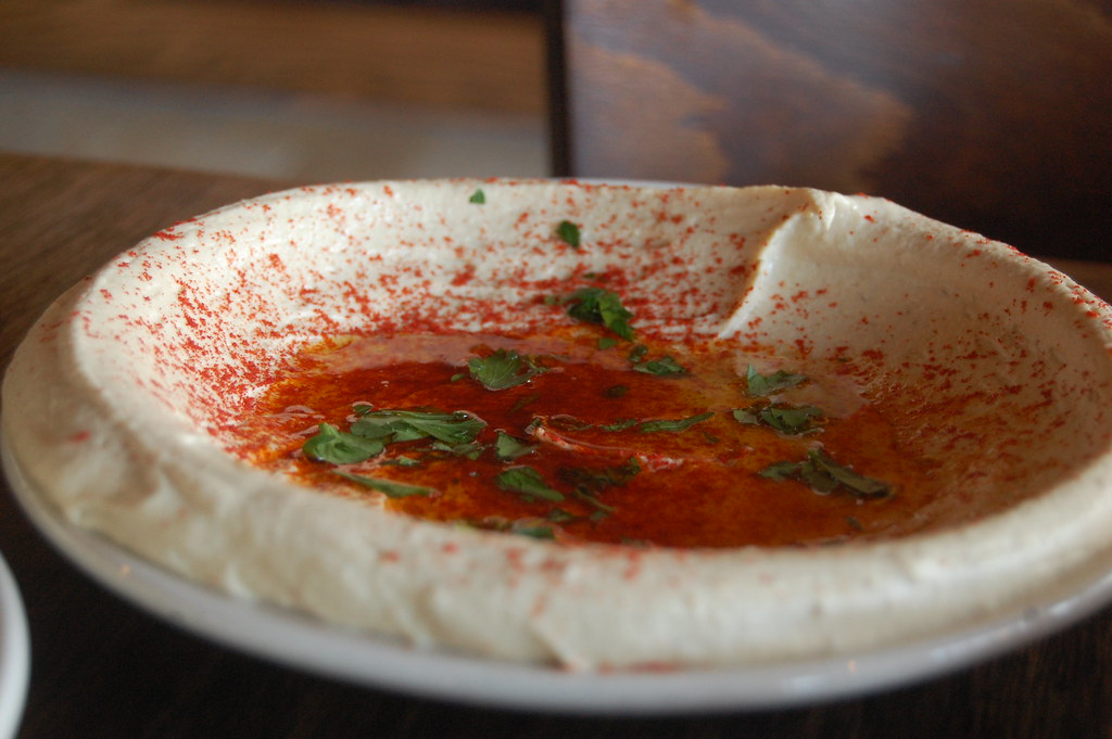 Israeli-Style hummus tehina served at Zahav in Philadelphia, Pennsylvania